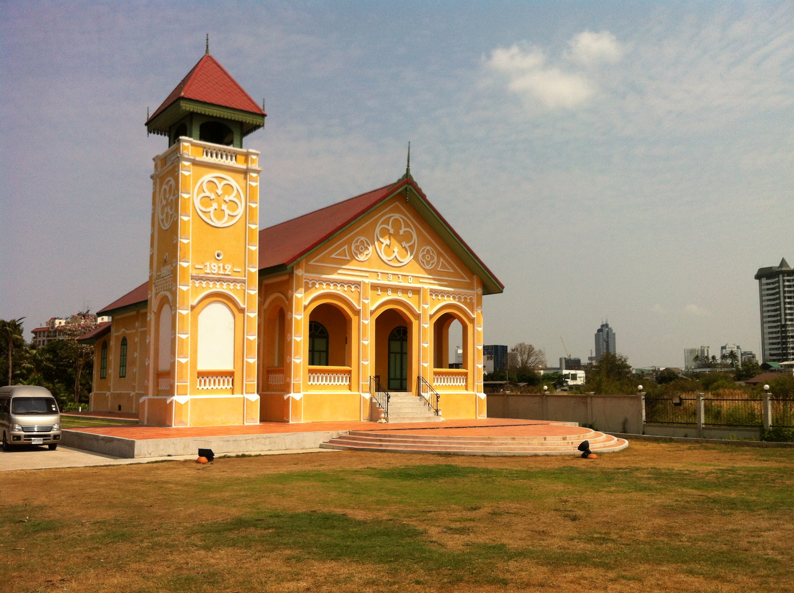 Samray Church, Bangkok, the first Presbyterian church in Thailand, founded 1849